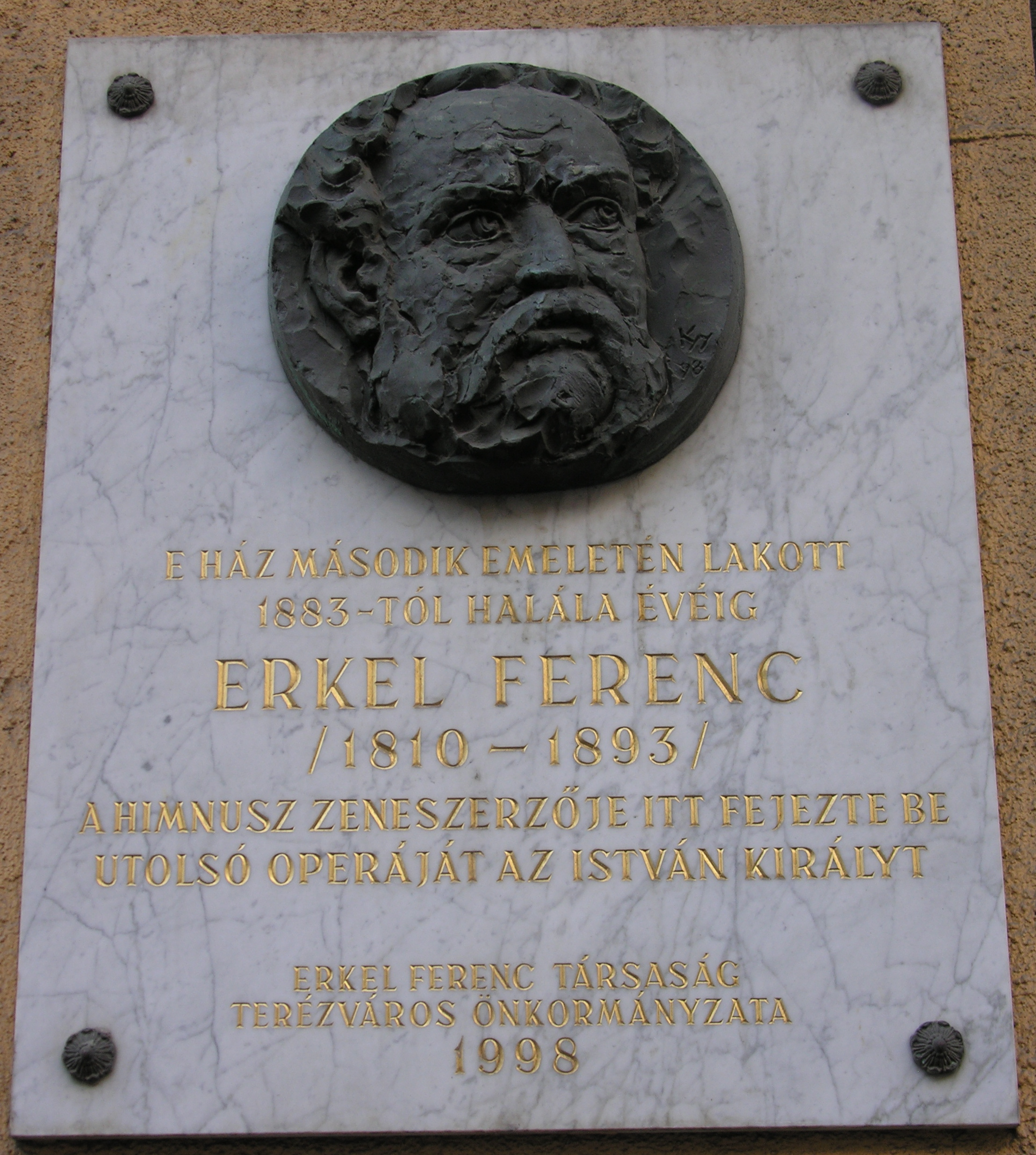 Commemorative plaque of Ferenc Erkel in Budapest District VI, Király Street No 84. Sculptor: György Kiss.